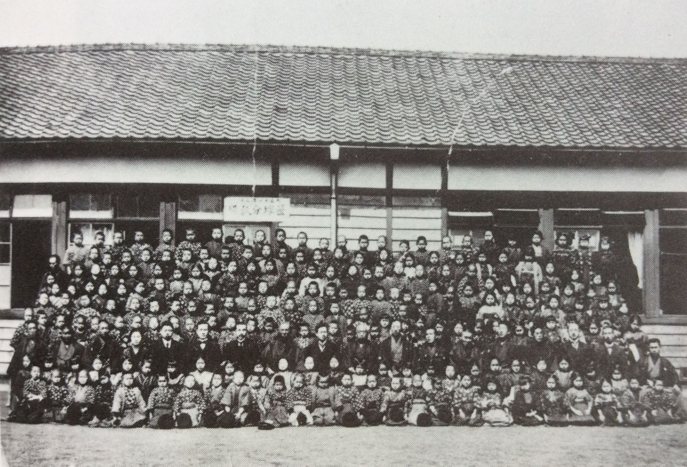 The original image was taken in 1922.